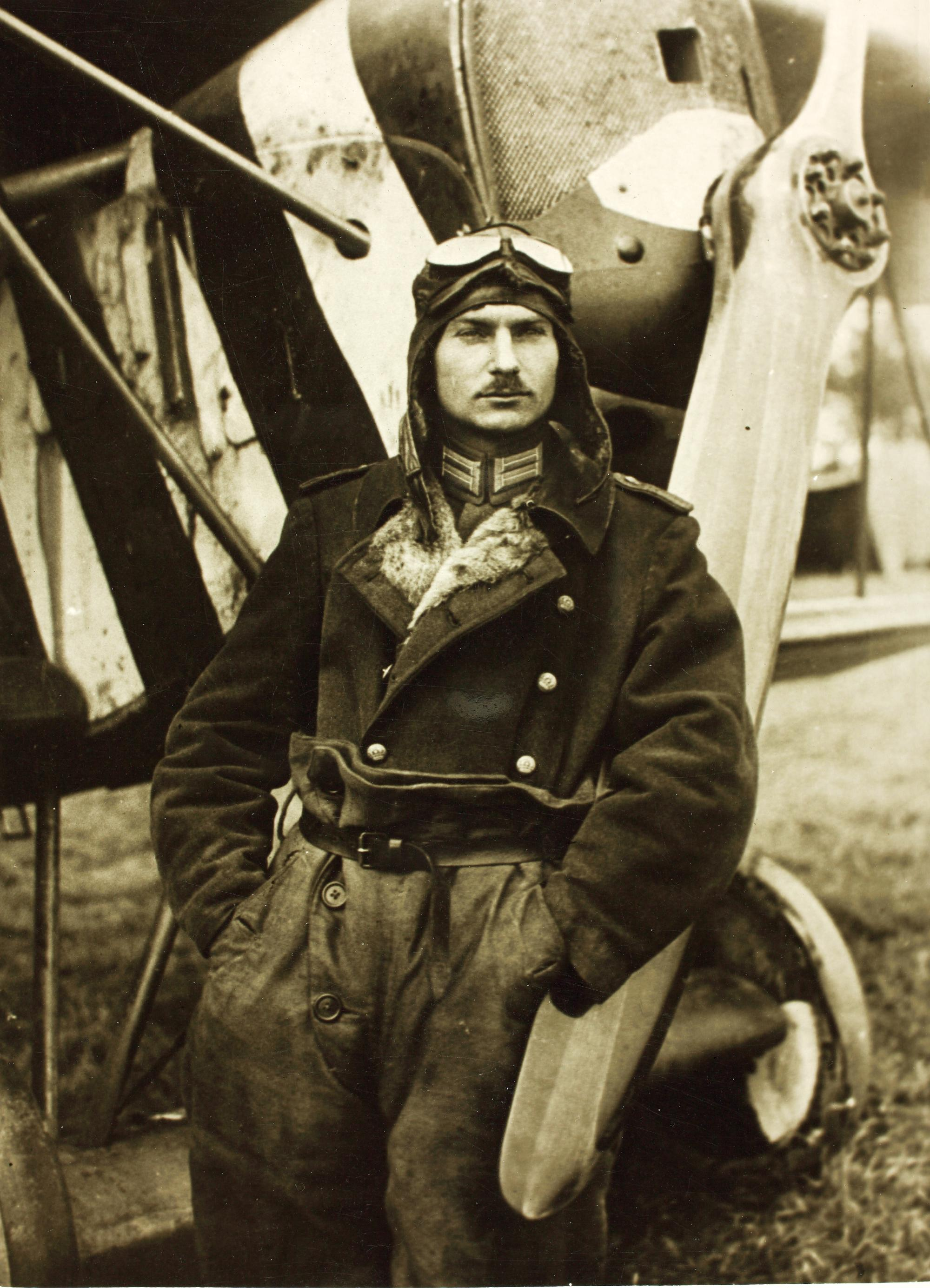 Catalog #: 10_0017320 Title: World War One German Aviator Lt. Josef Mai Date: 1914-1918 Additional Information: World War One German Aviator Lt. Josef Mai Tags: World War One German Aviator Lt. Josef Mai, World War One German Aviator Lt. Josef Mai, 1914-1918 Repository: San Diego Air and Space Museum Archive